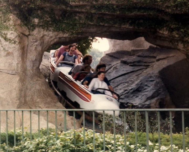 Matterhorn Bobsleds 1983 Taken by Ellen Levy Finch (User:Elf)